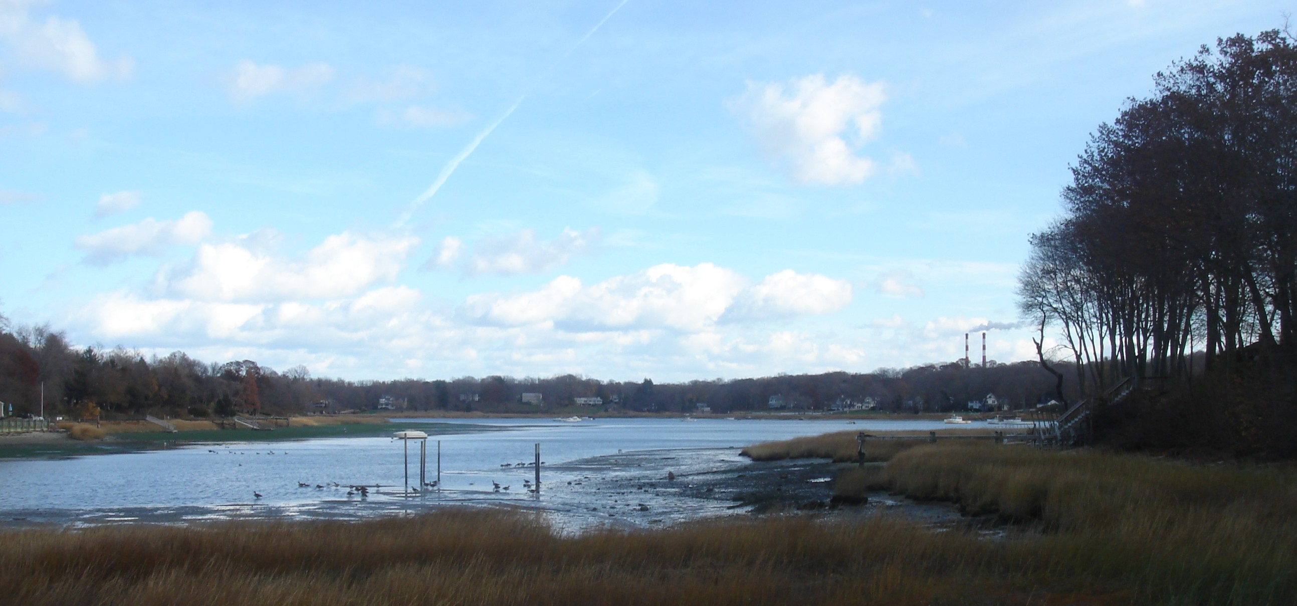 Bay Setauket Harbor, Long Island.